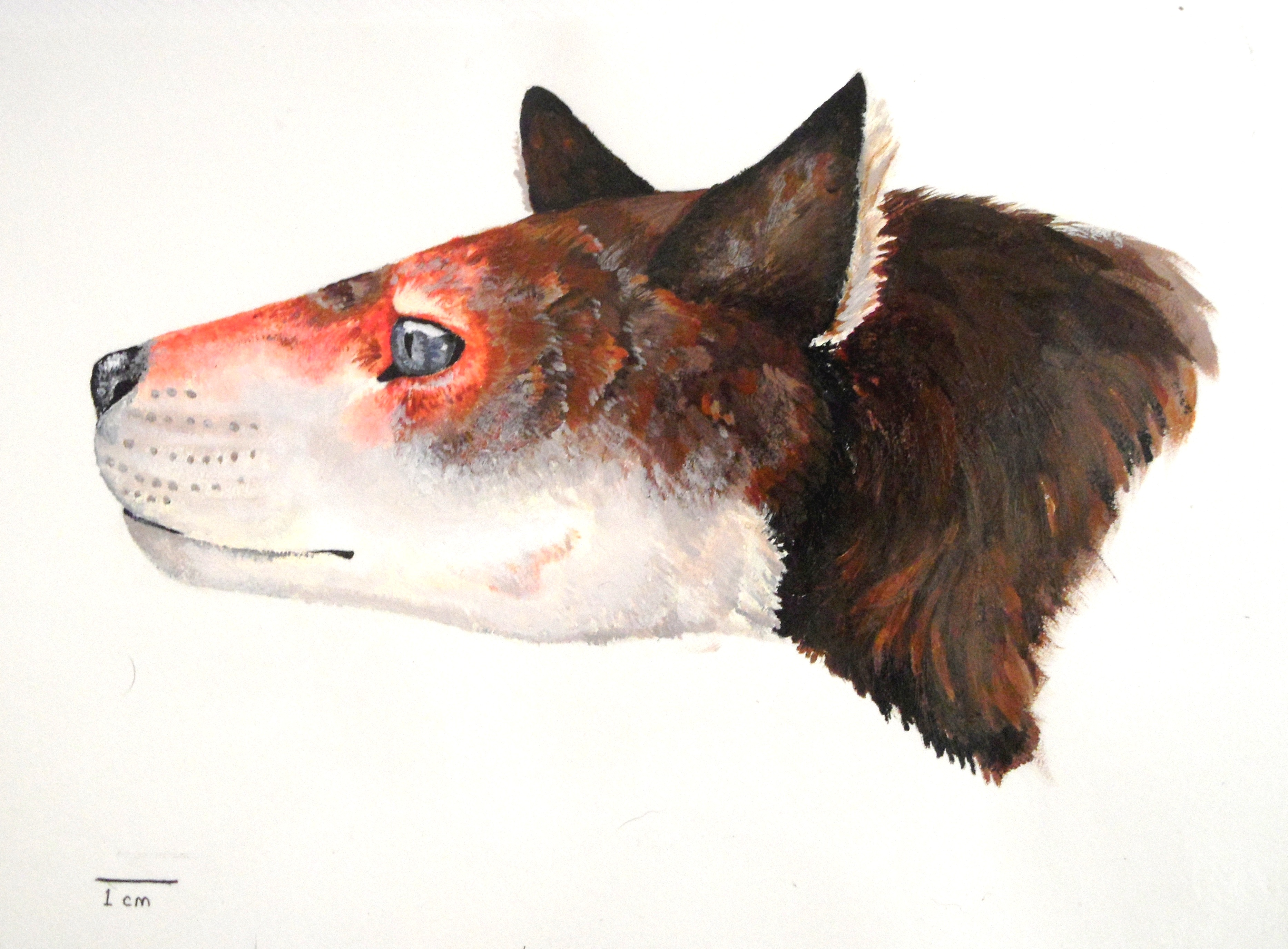 facial profile of Miacis cognitus